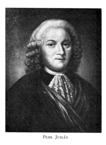 Engraved portrait of the Finnish lawyer Pehr Juslén a.k.a. Pietari Jusleen (1739–1794).